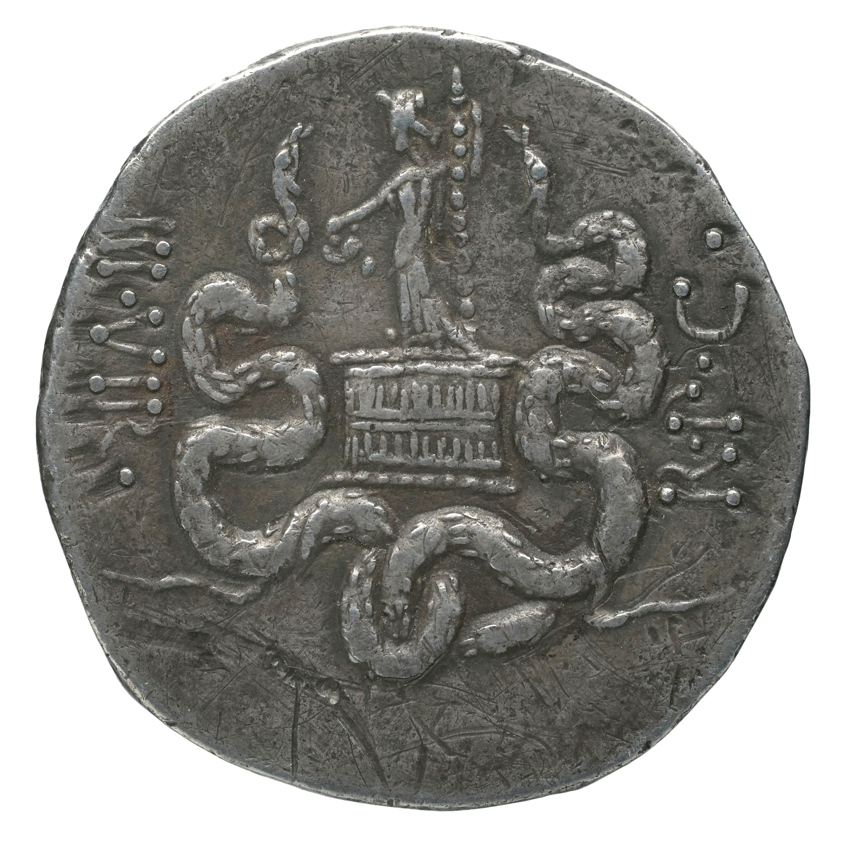 MARK ANTONY, with OCTAVIA. 39 BC. AR Cistophoric Tetradrachm (27, 8mm, 11,56 gr,). Ephesus mint. III.VIR.R.P.C., Bacchus standing left on cista mystica, holding cantharus and thyrsus, coiled serpents at sides. RPC I 2202; CRI 263; Sydenham 1198; RSC 3. Good VF, old collection toning.